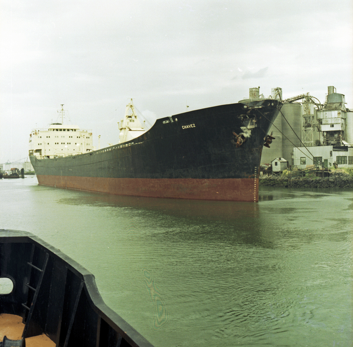 At 2:38 a.m. on June 11, 1978, the freighter CHAVEZ rams the old West Seattle Bridge over the Duwamish West Waterway, thereby closing it to automobile traffic for the next six years. Leading to the construction of a new high bridge. The Chavez was 550 feet long and carrying 20,000 tons of gypsum under the command of 80-year-old Puget Sound Pilot Rolf Neslund (1897-1980) and its master, Gojko Gospodnetic, when, just before dawn, it struck the east end of the bridge. A Coast Guard board of inquiry found both officers negligent. Neslund retired two weeks after the accident. Gospodnetic, a Yugoslav national, was fired. See Seattle City Archives website for the story of how some West Seattleites threatened to secede from the city to get the bridge built. Item 73167, Engineering Department Photographic Negatives (Record Series 2613-07), Seattle Municipal Archives.